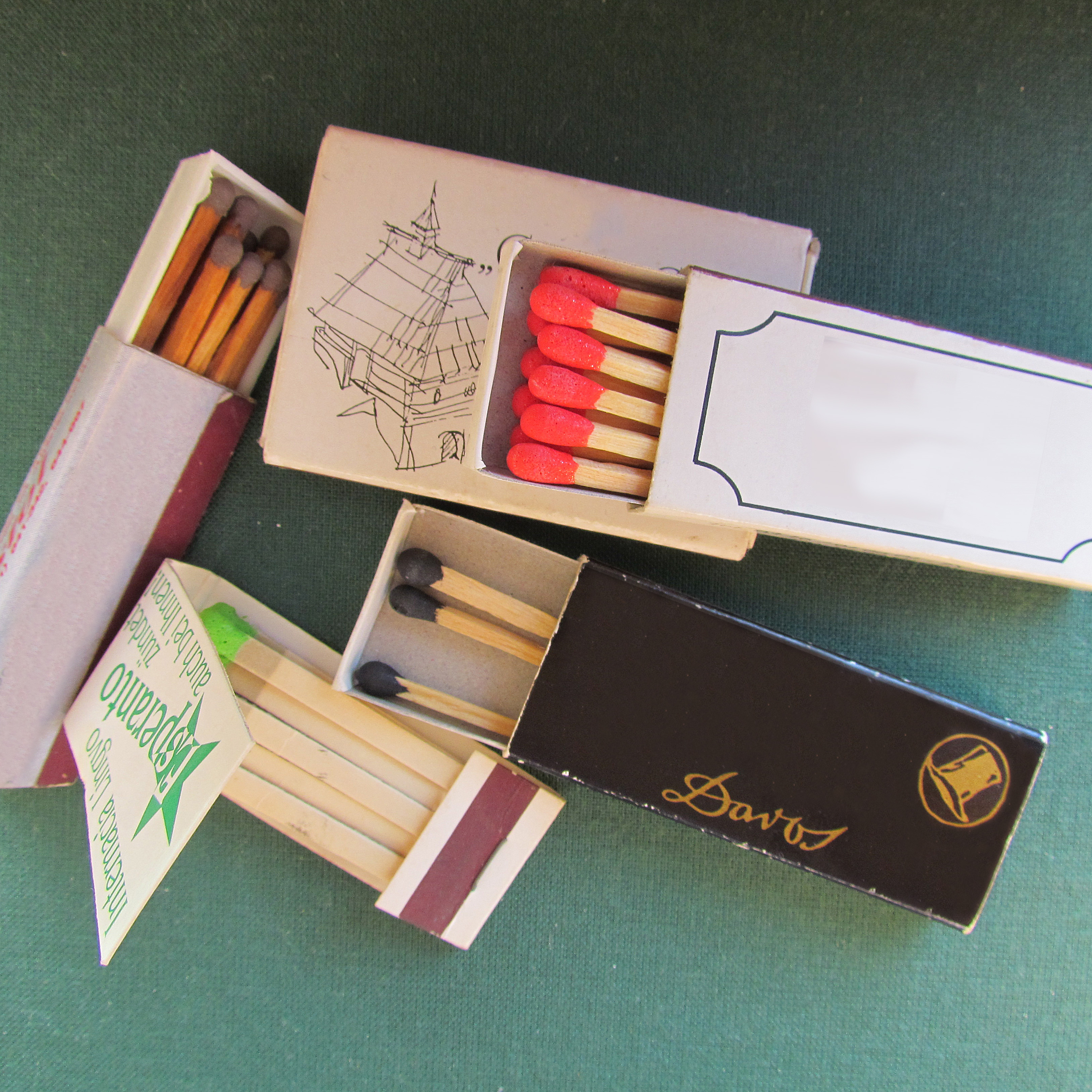 Different Matches